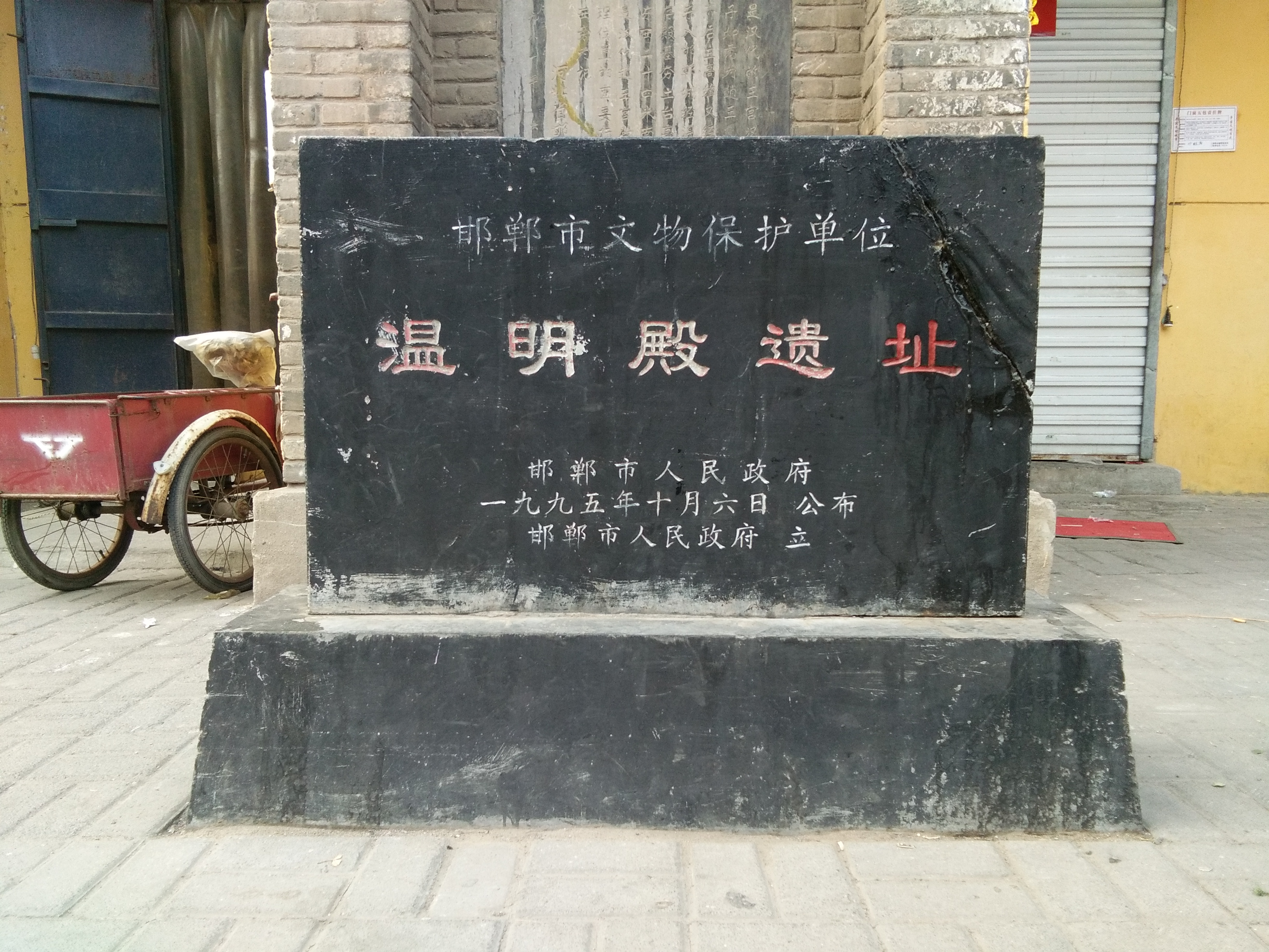 Wen Ming Dian is a Han Dynasty building, a palace built by Liu Bang for his son Liu Ruyi, and is now the Handan City Cultural Relic Protection Unit.